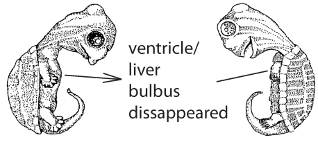 Standard Event System character depiction